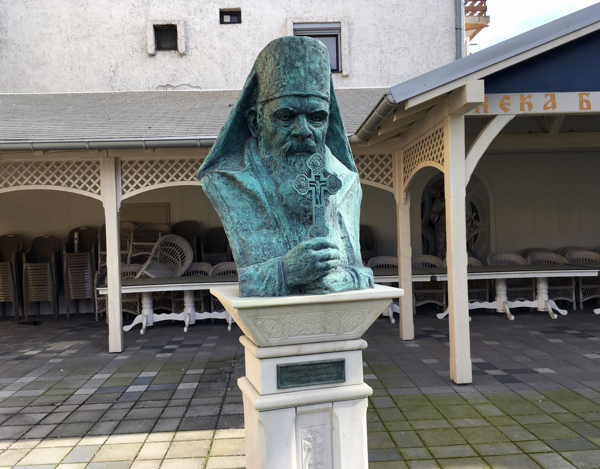 The Monument dedicated to Nikolaj Velimirović, Šabac.